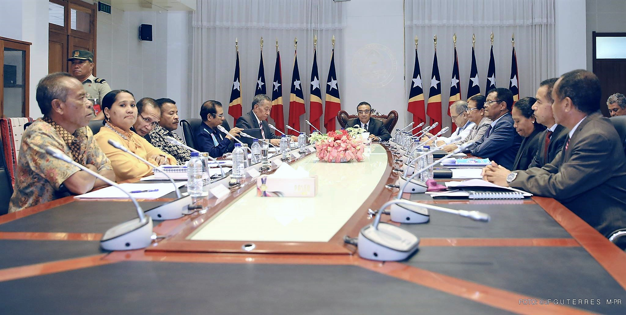 PRESIDENT OF THE REPUBLIC CONSULTS WITH THE COUNCIL OF STATE ABOUT THE 2019 BUDGET Nicolau Lobato Presidential Palace, Dili, 15 January 2019 The President of the Republic Francisco Guterres Lú Olo today presided over the meeting of the Council of State, which focused on the 2019 General State Budget. Before the meeting, three new members of the Council of State appointed by National Parliament took office, namely Eduardo de Deus Barreto ‘Dusae’, José Cornélio Guterres and Arcangelo de Jesus Gouveia. When making a decision about whether to enact or veto the budget proposal, the President of the Republic will take into consideration the opinions of the members of the Council of State as his political advisory body. Present at the meeting were former President of the Republic José Ramos-Horta, Prime Minister Taur Matan Ruak and the president of National Parliament Arão Noé de Jesus da Costa Belo.The meeting was also attended by Eduardo de Deus Barreta“Dusae”, Aurora Ximenes, José Cornélio Guterres, Arcangelo de Jesus Gouveia Leite and José dos Santos “Naimori Bukar”, appointed by National Parliament, and Oscar Lima, Faustinho Godingho Gonçalves da Costa, Alcino de Araújo Barris, Maria Dadi Soares Magno and Laura Soares Abrantes, appointed by the President of the Republic.Former President of the Republic Kay Rala Xanana Gusmão and Faustinho Godinho Gonçalves da Costa could not attend the gathering. The General State Budget Law for 2019, of $ 2.1 billion was submitted to the President of the Republic on 24 December 2018.The Head of State has now thirty days to decide whether to enact or veto the diploma. Between 7 and 10 January, the President of the Republic consulted with a number of entities, namely the Petroleum Fund Consultative Council, civil society organisations, law experts, scholars, religious denominations, the Chamber of Commerce and Industry of Timor-Leste and Timor-Leste Central Bank.